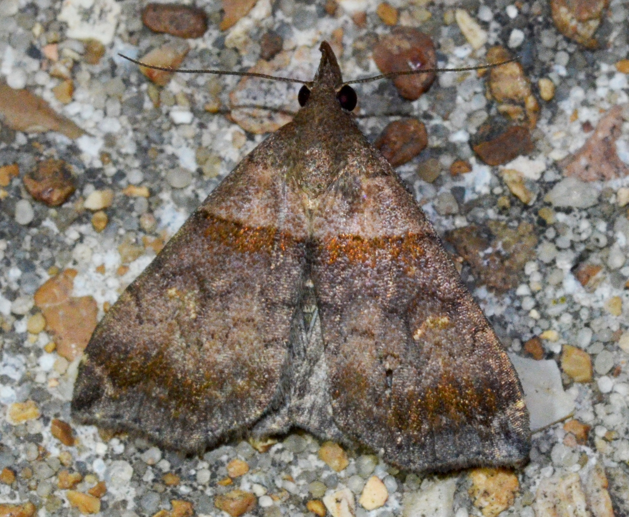 Mothing Night 6/16/14